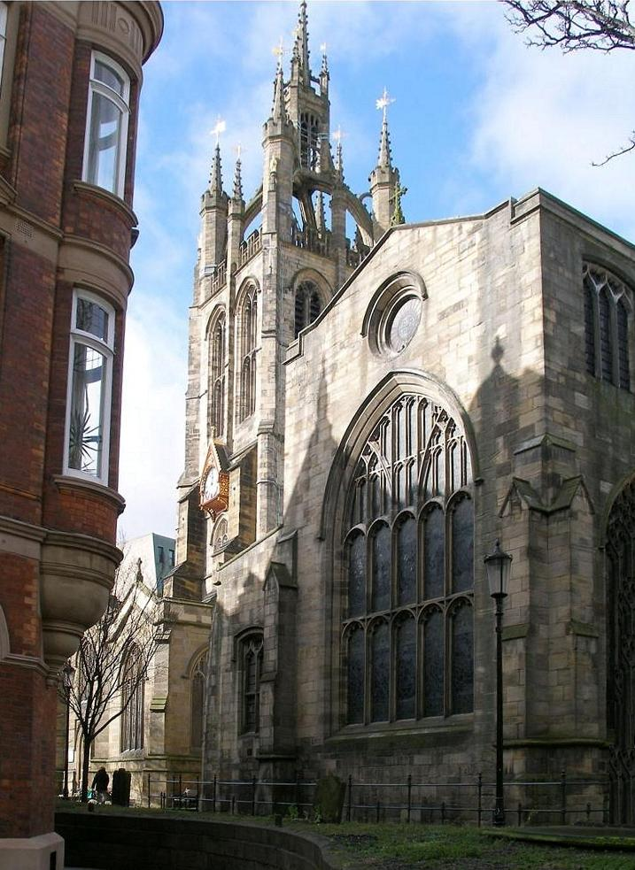 Amen Corner and St Nicholas Cathedral, Newcastle-upon-Tyne